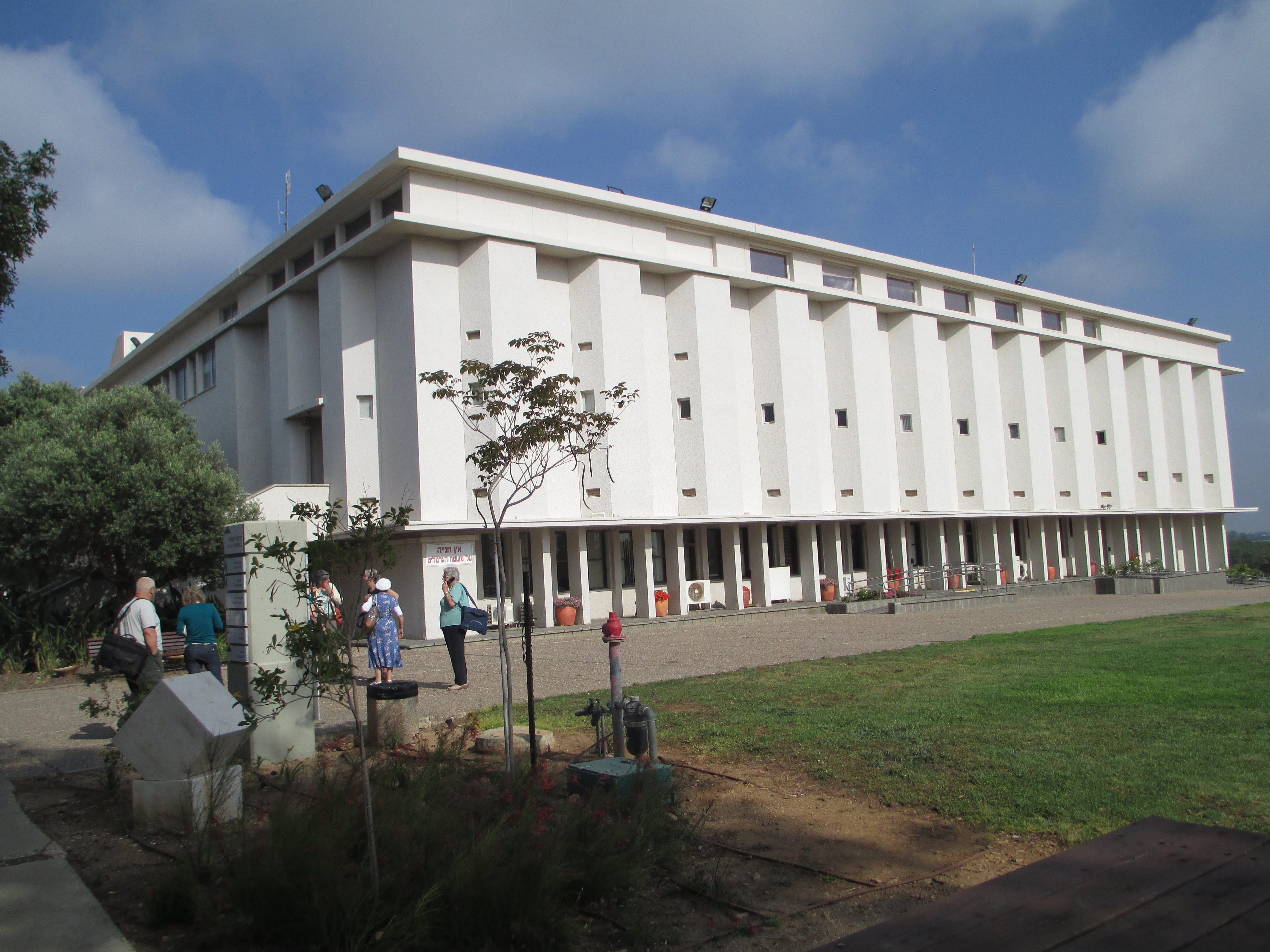 Ghetto Fighter's House Museum